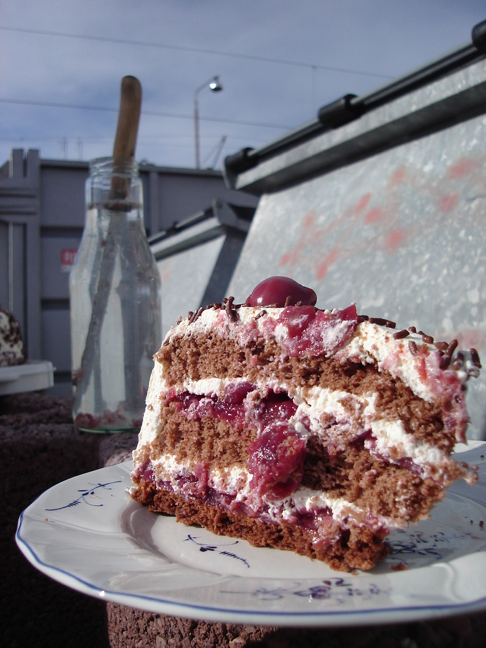 Cherry Cake from Schwarzwald, Germany